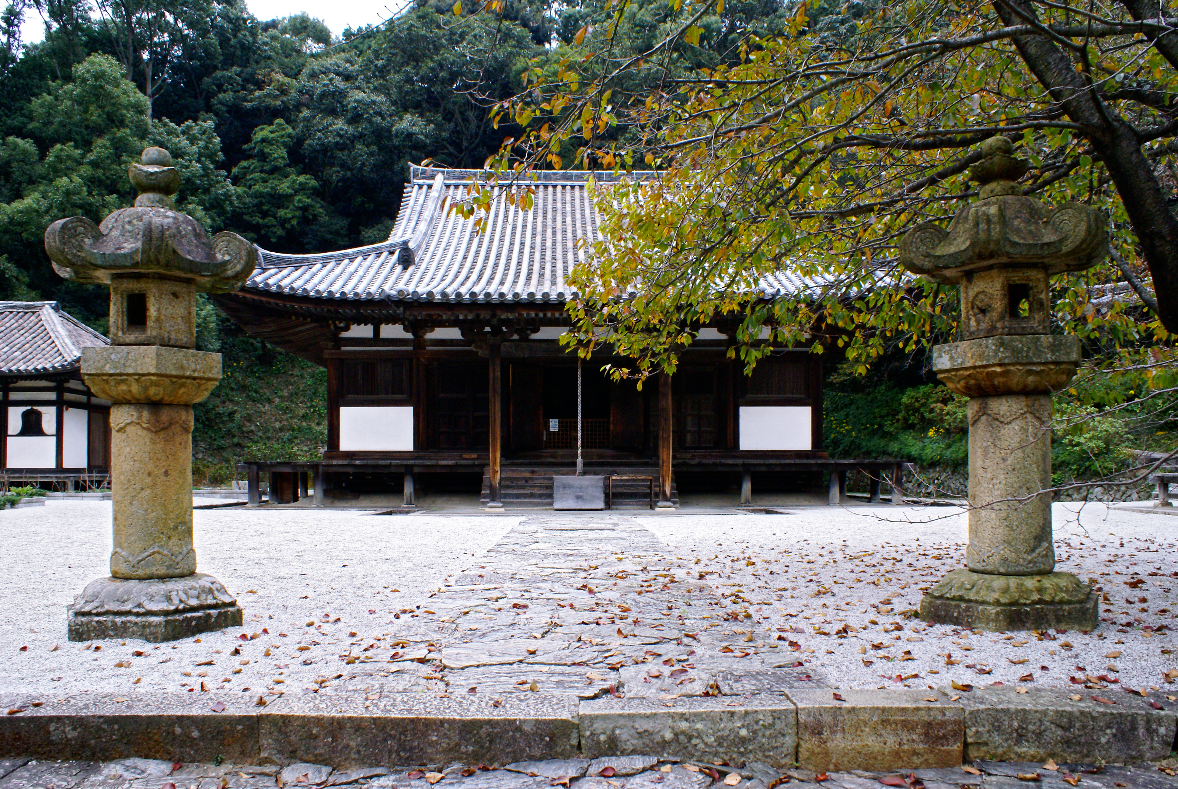 Main Hall of Chōhō-ji is a Japan's National Treasure in Kainan, Wakayama prefecture, Japan It was rebuilt in 1311.